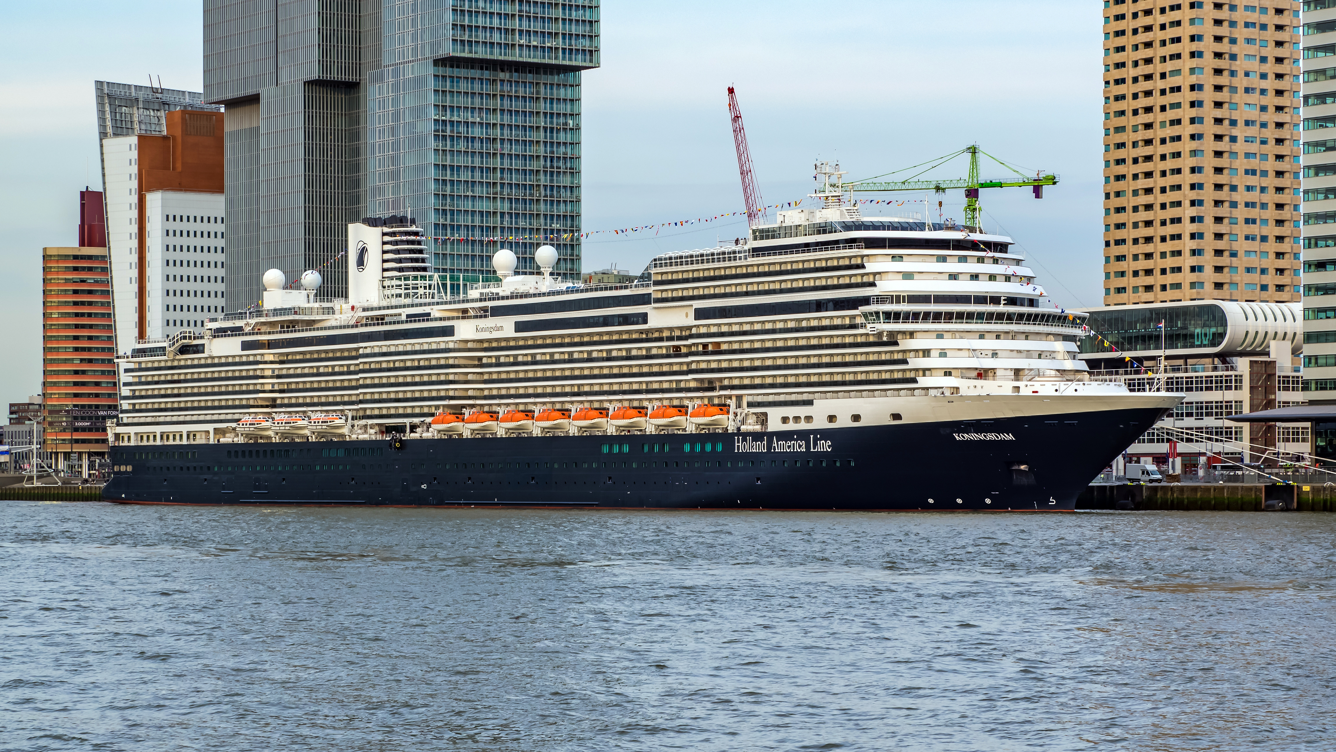 Cruiseship Koningsdam (Holland America Line) in Rotterdam